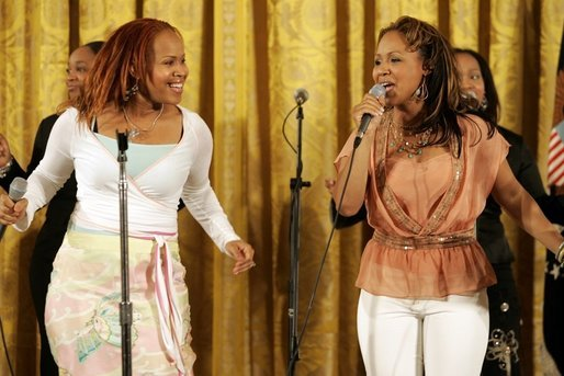 Sisters Erica and Tina Campbell of the singing group Mary Mary, perform for the President and First Lady in the White House Monday, June 6, 2005, during a celebration of Black Music Month.